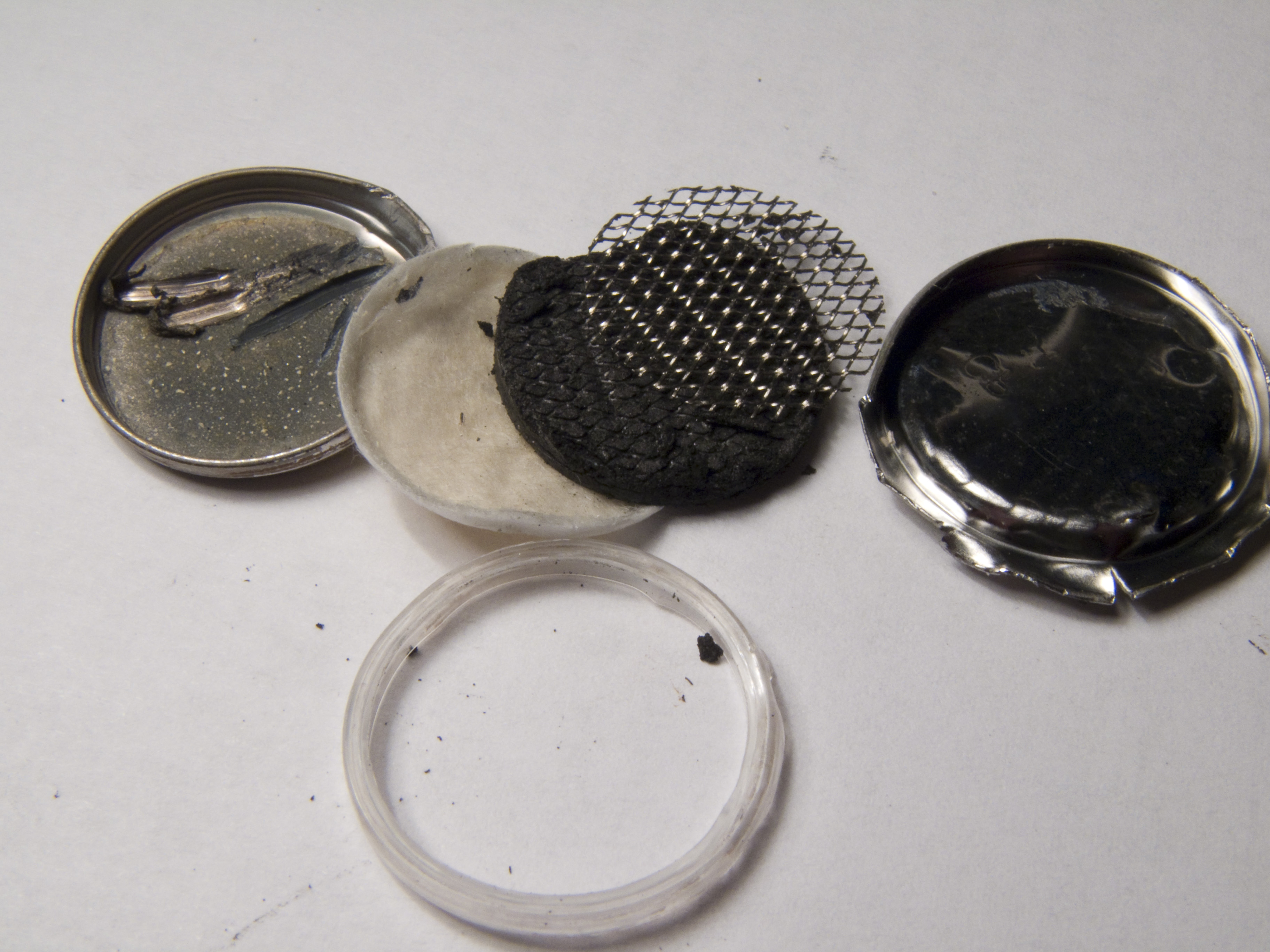 Disassembled CR2032 lithium battery . From left - negative cup from inner side with layer of lithium (I made few scratches and on air oxidizes in few seconds), separator(porous material), cathode (manganese dioxide), metal grid - current collector, metal casing (+)(damaged during opening the cell), on the bottom is plastic sealing ring